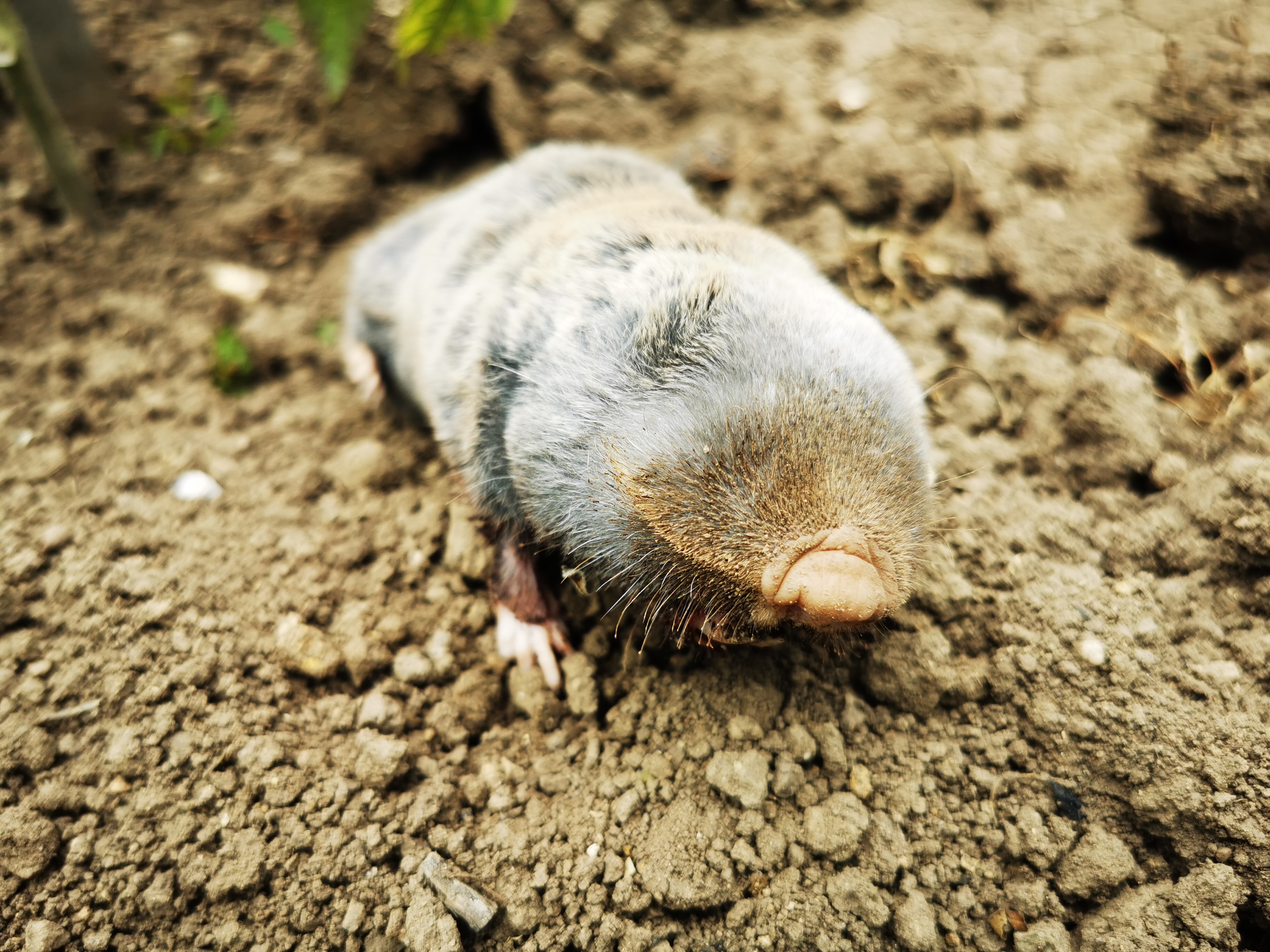 The lesser mole-rat (Spalax leucodon) is a species of rodent in the family Spalacidae found in Albania, Bosnia and Herzegovina, Bulgaria, Greece, Hungary, North Macedonia, Romania, Serbia, Montenegro, Israel, Turkey, Iran and Ukraine.